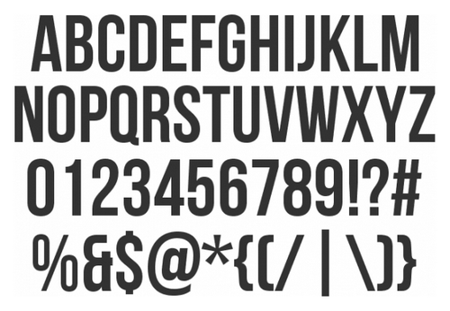 Bebas